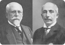 Paul & Frans Wittouck